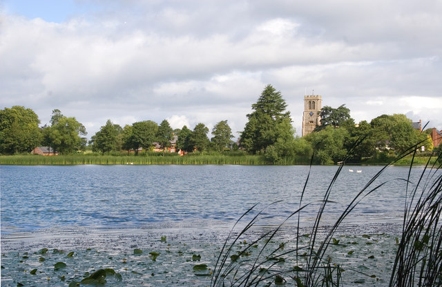 Hanmer Mere. Photograph taken looking towards the Parish Church of St. Chad in the village of Hanmer.